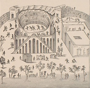 Conflict between the Pompeians and the Nucerians